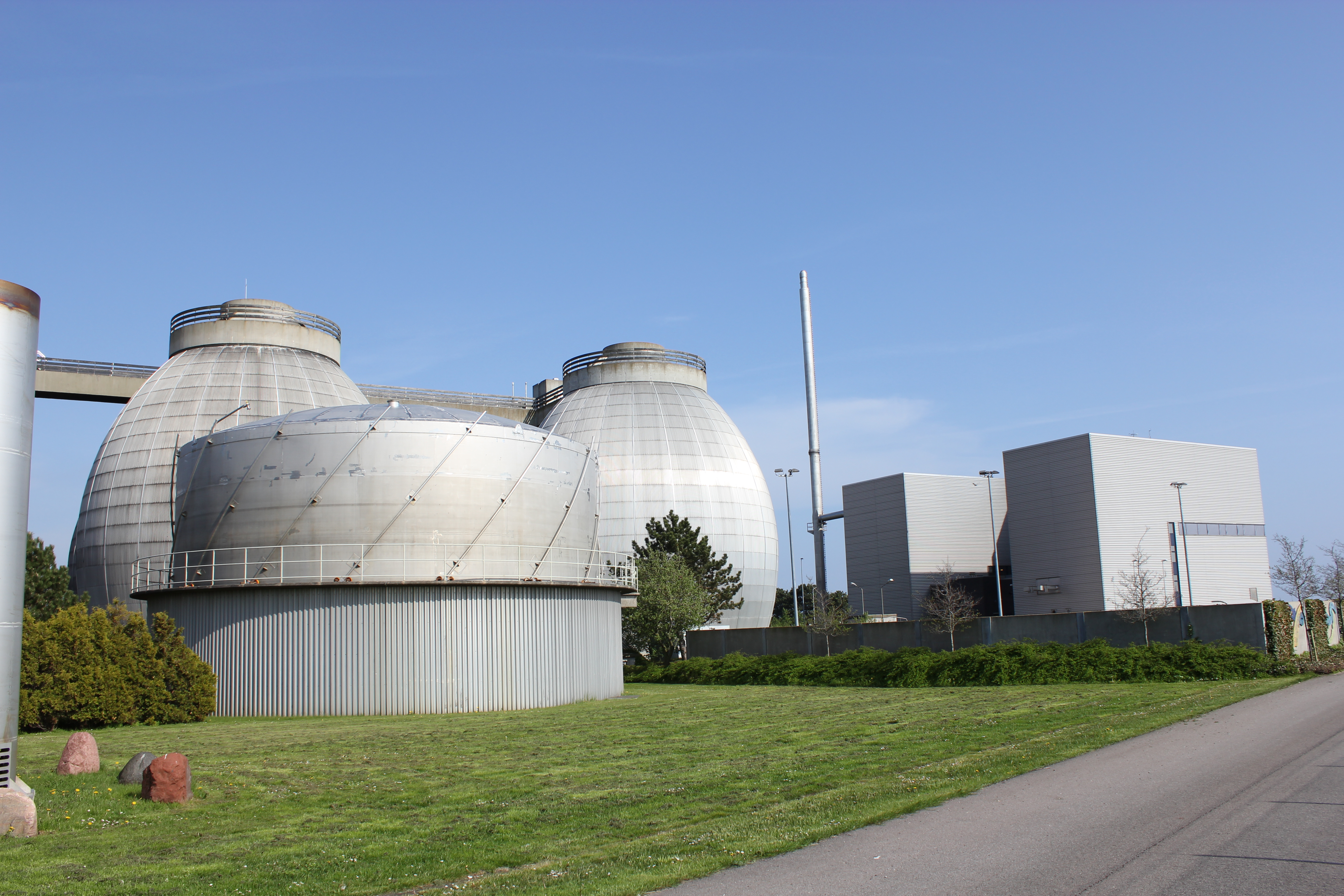 Digesters, Gas and sludge incineration at Avedøre WWTP.